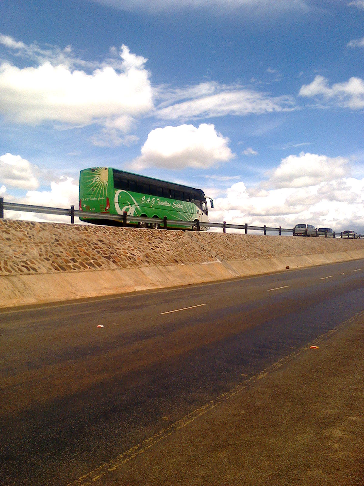 Bus at Mabvuku rail over bridge This is an image with the theme "Africa on the Move or Transport" from: Zimbabwe